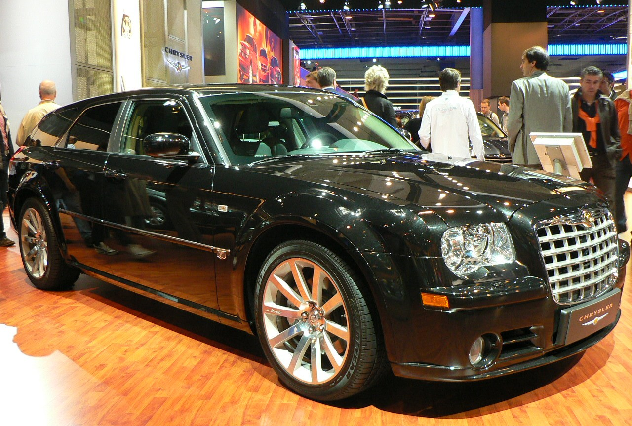 Chrysler 300C Touring at the 2006 Paris Motor Show